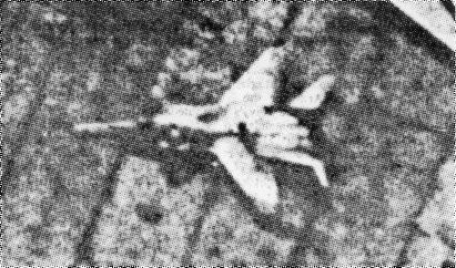 This satellite photograph, depicting a MiG-29 FULCRUM fighter jet, was shown to the Committee on Appropriations of the House of Representatives during 1984 budget hearings in 1983 and subsequently published, apparently by mistake, in the sanitized version of the hearings released to the public. Two years later, during the trial of Samuel L. Morison, government prosecutors acknowledged that the photograph was a real satellite image, and that it wasn't produced by the KH-11 Kennan system (but ikely either by KH-8 or KH-9)